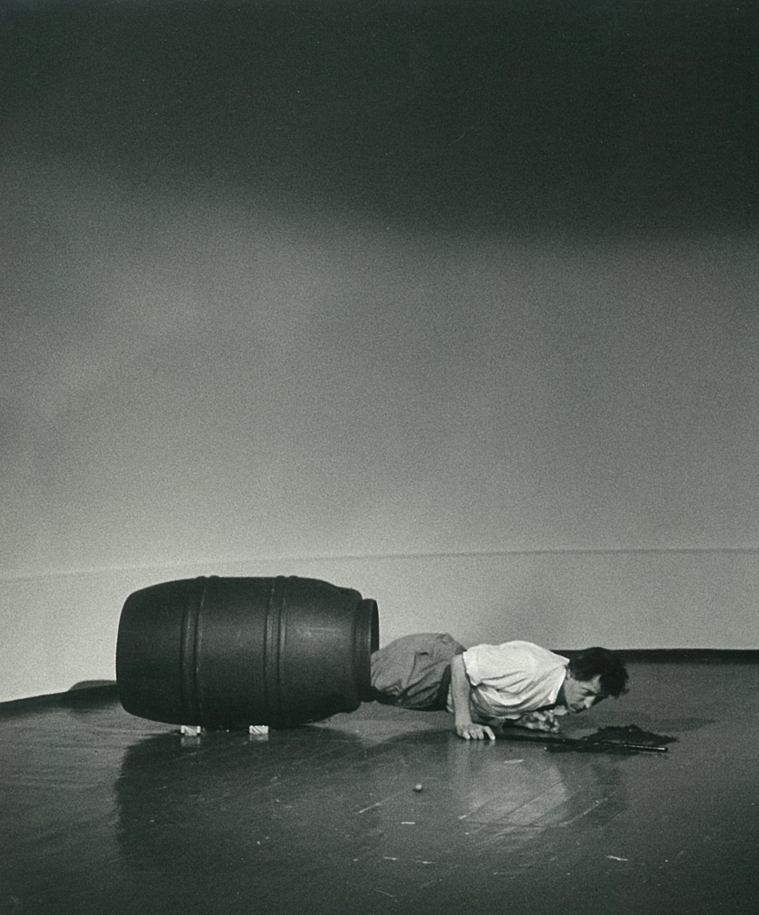 Natias Neutert, called a Diogenes of our time by critic Ursula Keller, at the ars long vita brevis-Performance Festival, No IV, Künstlerhaus Bethanien, Berlin in 1986.